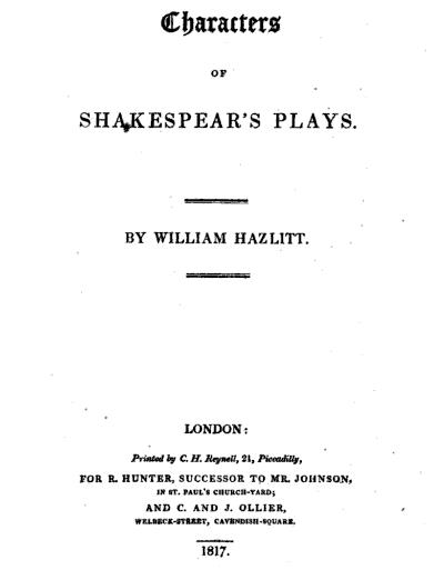 Titlepage of 1817 edition of Characters of Shakespear's Plays by William Hazlitt.